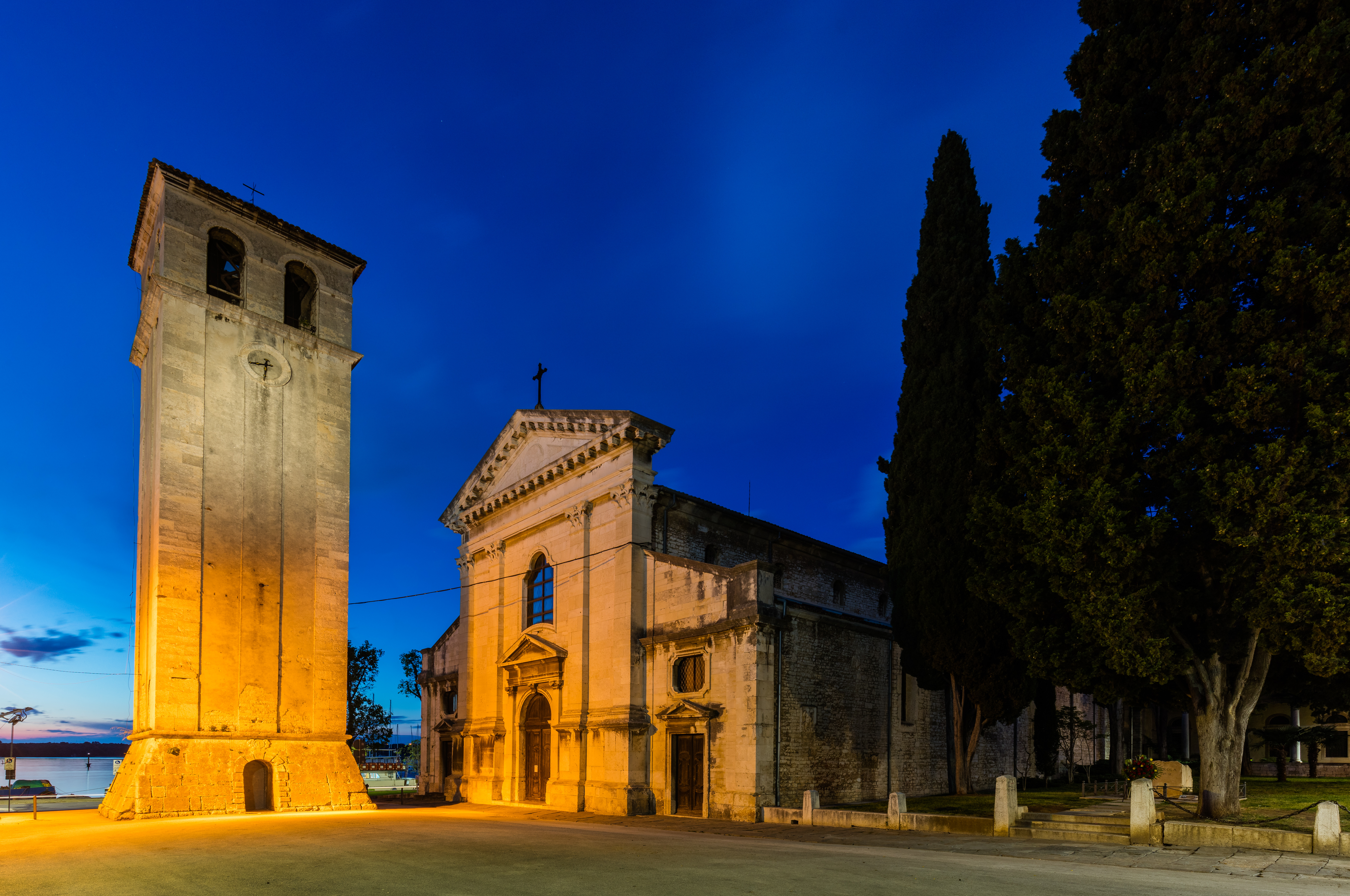 Pula cathedral, Croatia. This is a a photo of a cultural heritage in Croatia with ID: Z-4448